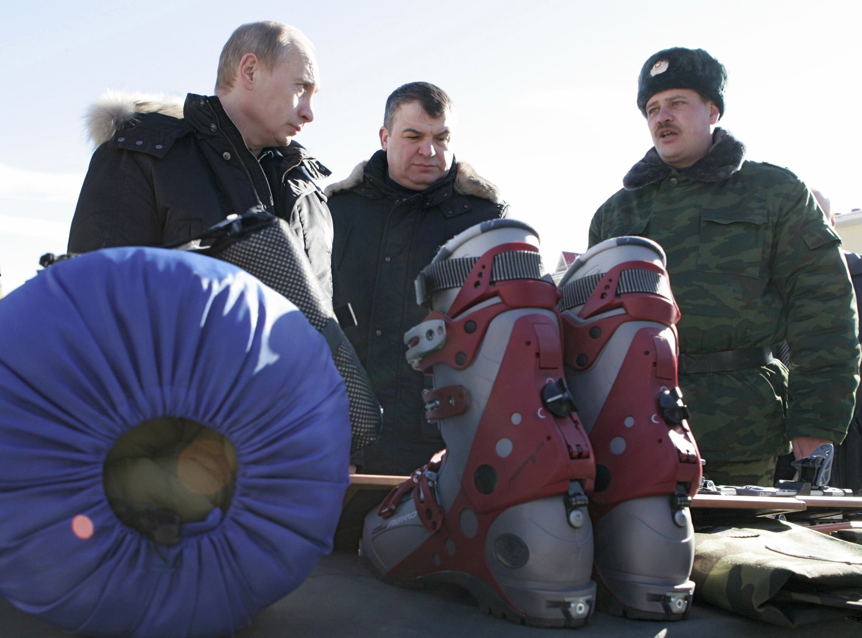 BOTLIKH, DAGESTAN. With the 33rd motorized rifle alpine brigade. On the right, Defense Minister Anatolii Serdiukov and brigade commander Vladimir Sokolov.